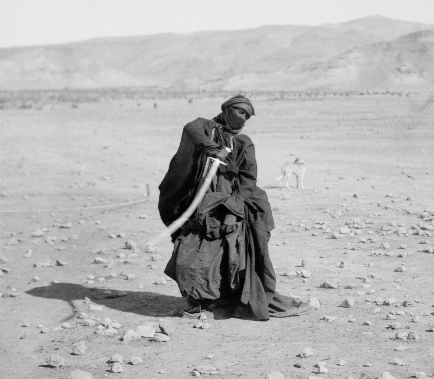 Bedouin wedding series. Woman dancing with sword.